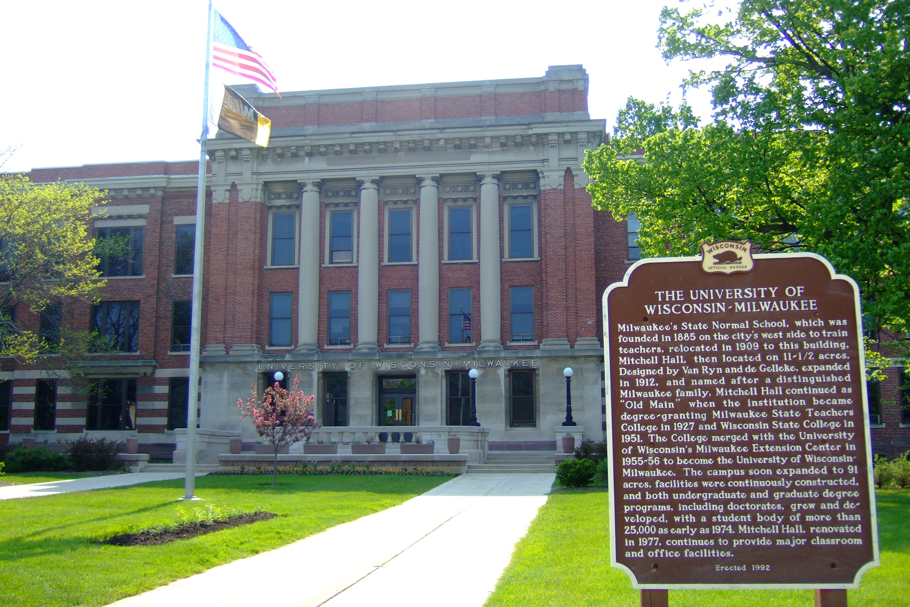 Mitchell hall building, University Wisconsin-Milwaukee